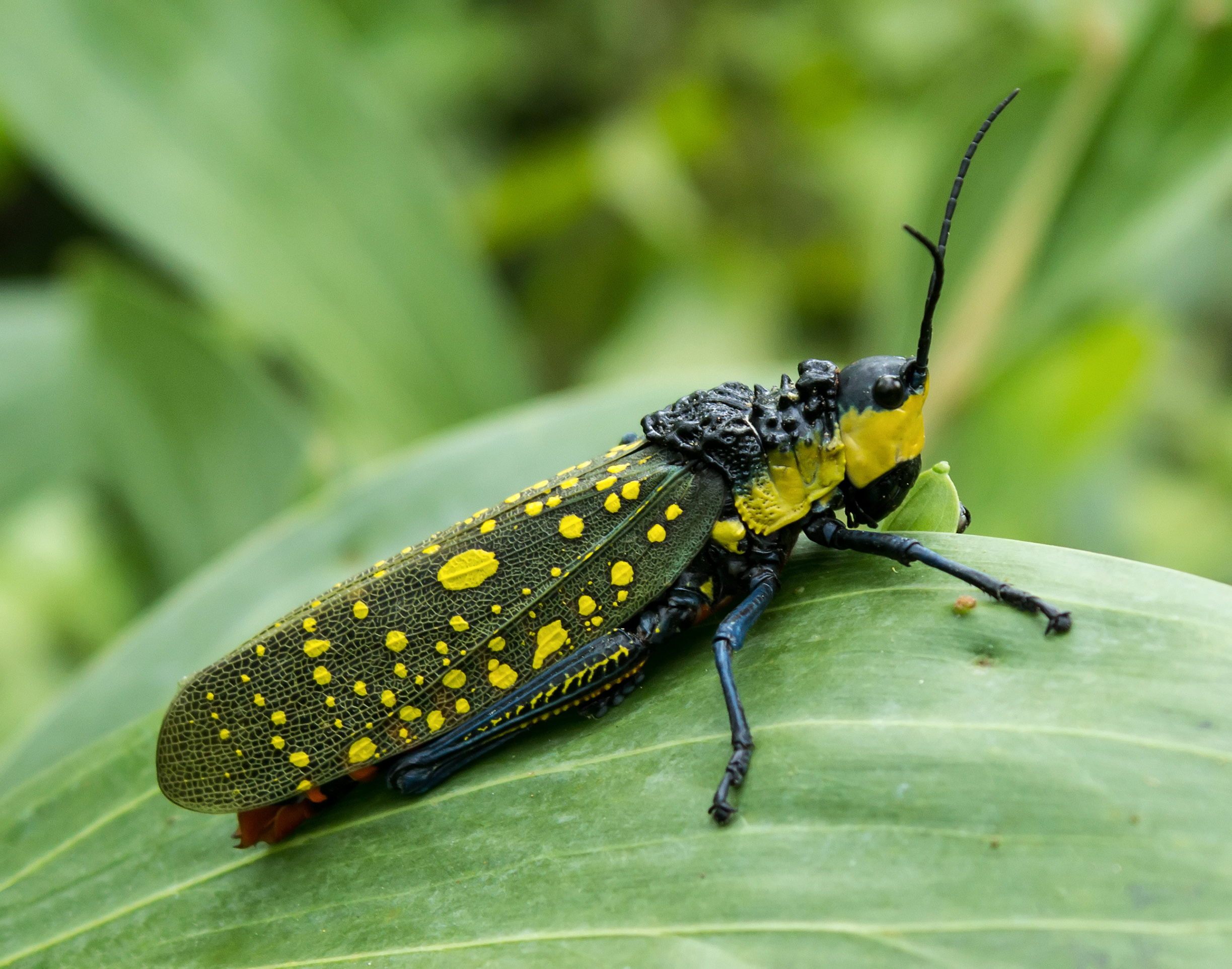 Aularches miliaris at Mangunan Orchard, Dlingo, Bantul, Yogyakarta.